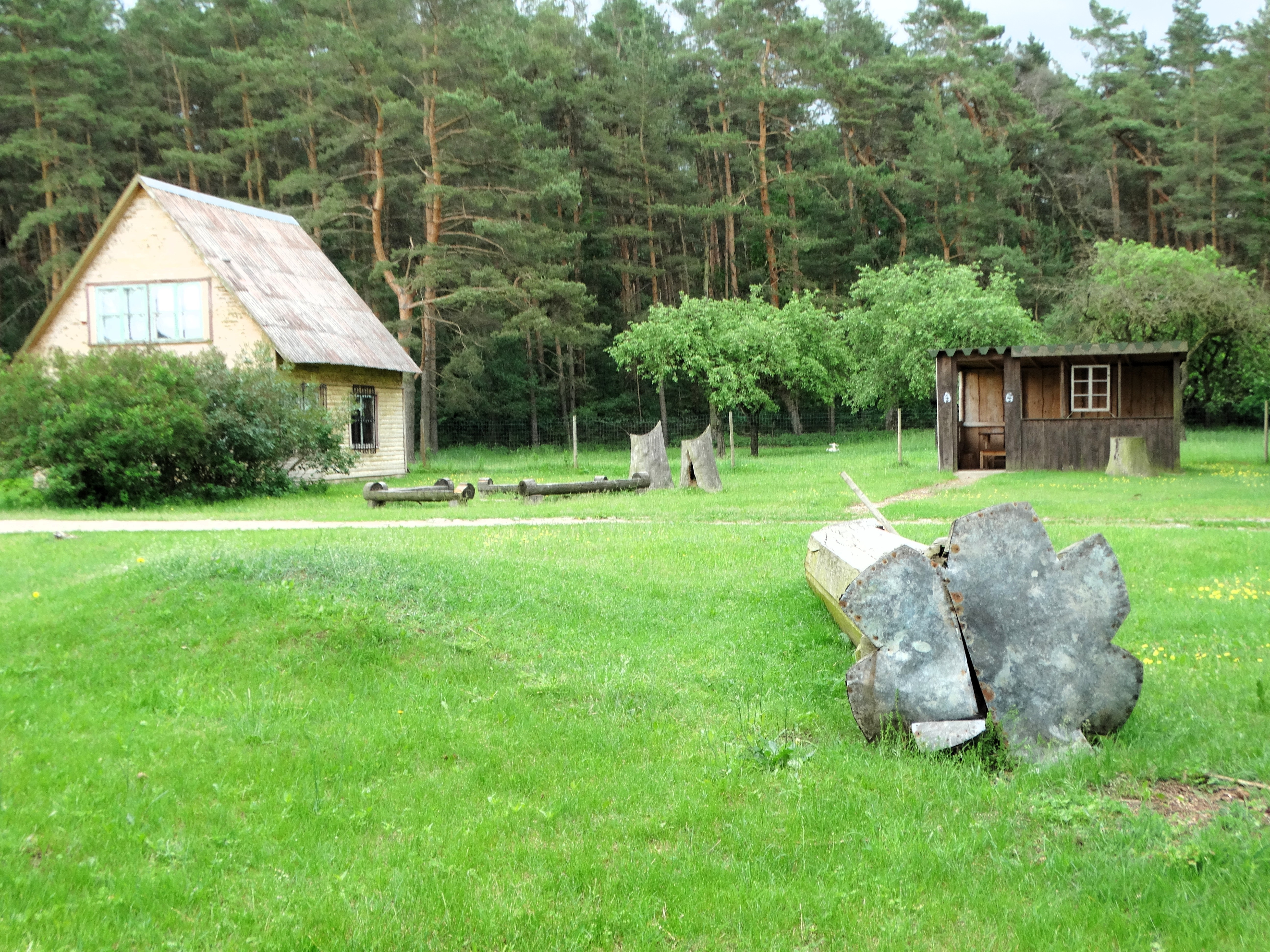 Samulevičiai family homestead, Prauliai, Jonava district, Lithuania